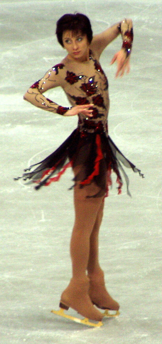 Elenia Liashenko at the world championships 2004 photo was done by me, Uwe Langer